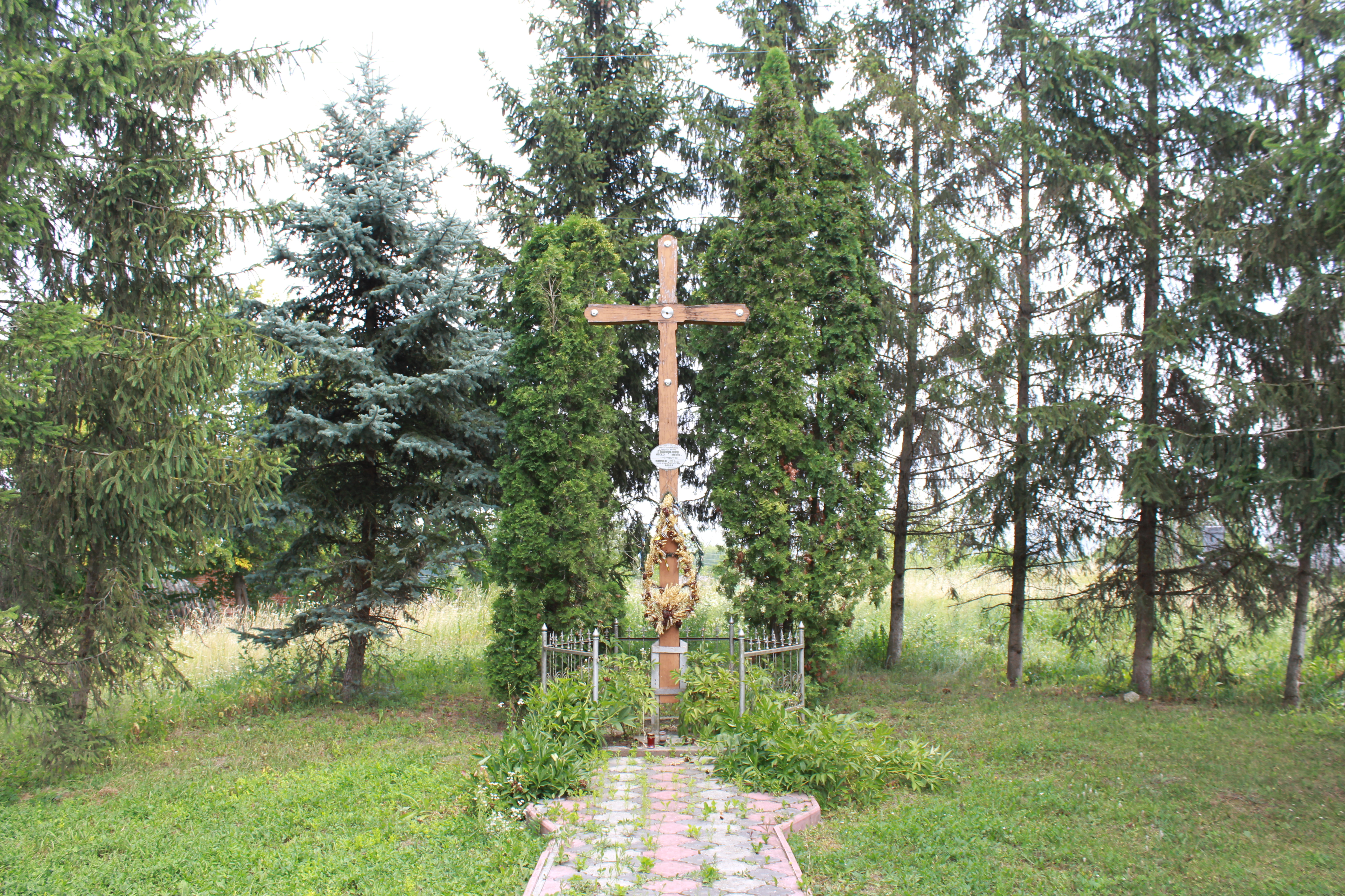 Пам'ятний знак жертвам Голодомору, с. Біла, Чортківський район, 2016